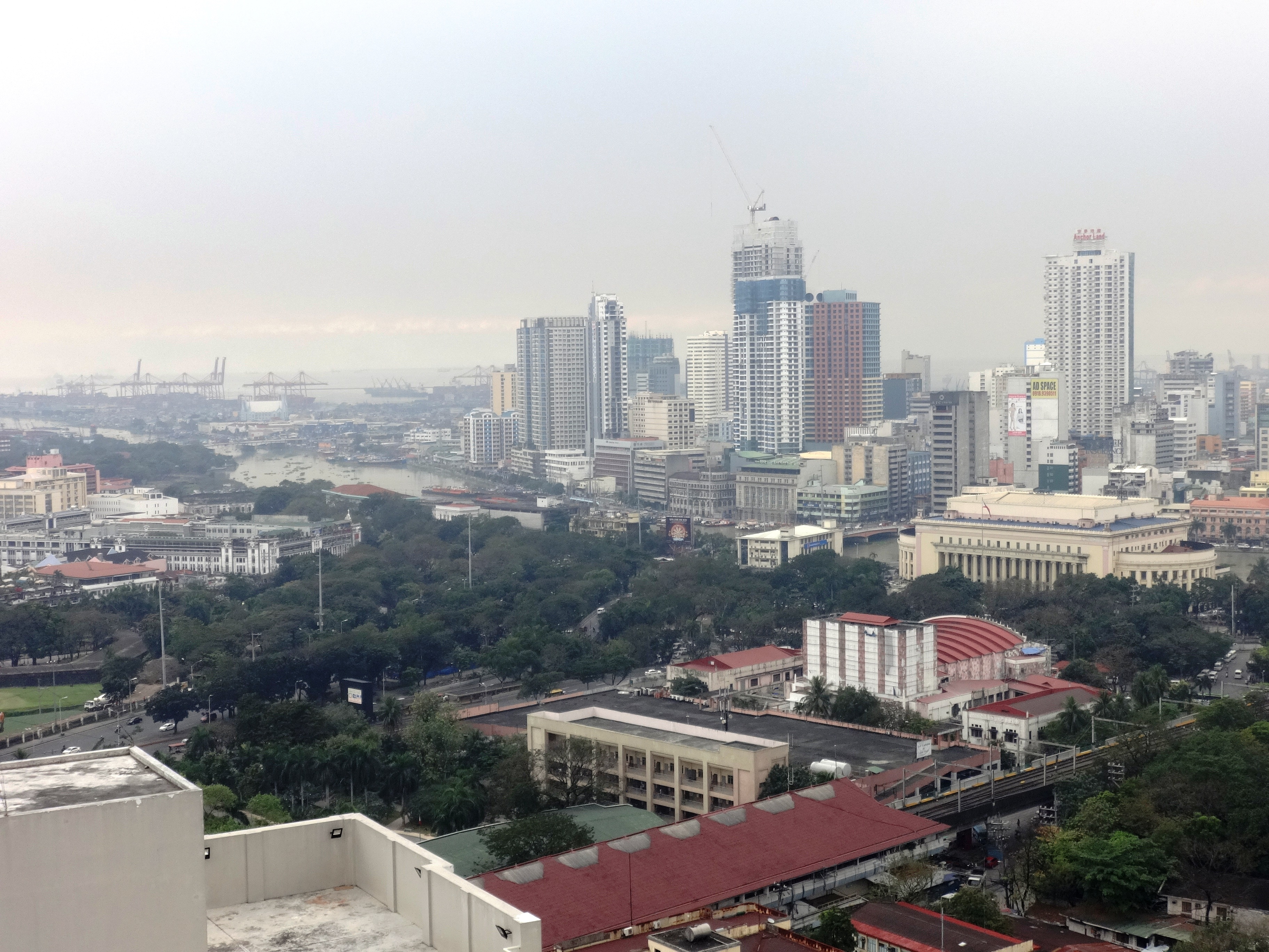 Aerial view of downtown area in Manila